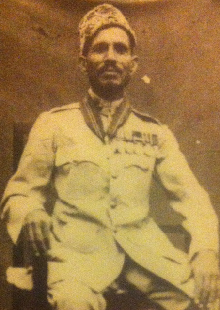 This is the picture of Honorary Lieutenant Pehlwan Khan OBI First class